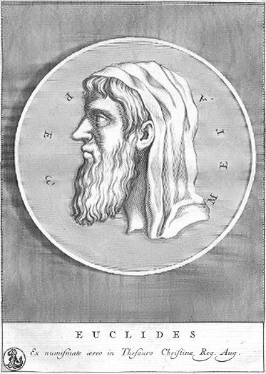 Portrait of ancient greek philosopher Euclid of Megara, founder of the school of Megara.